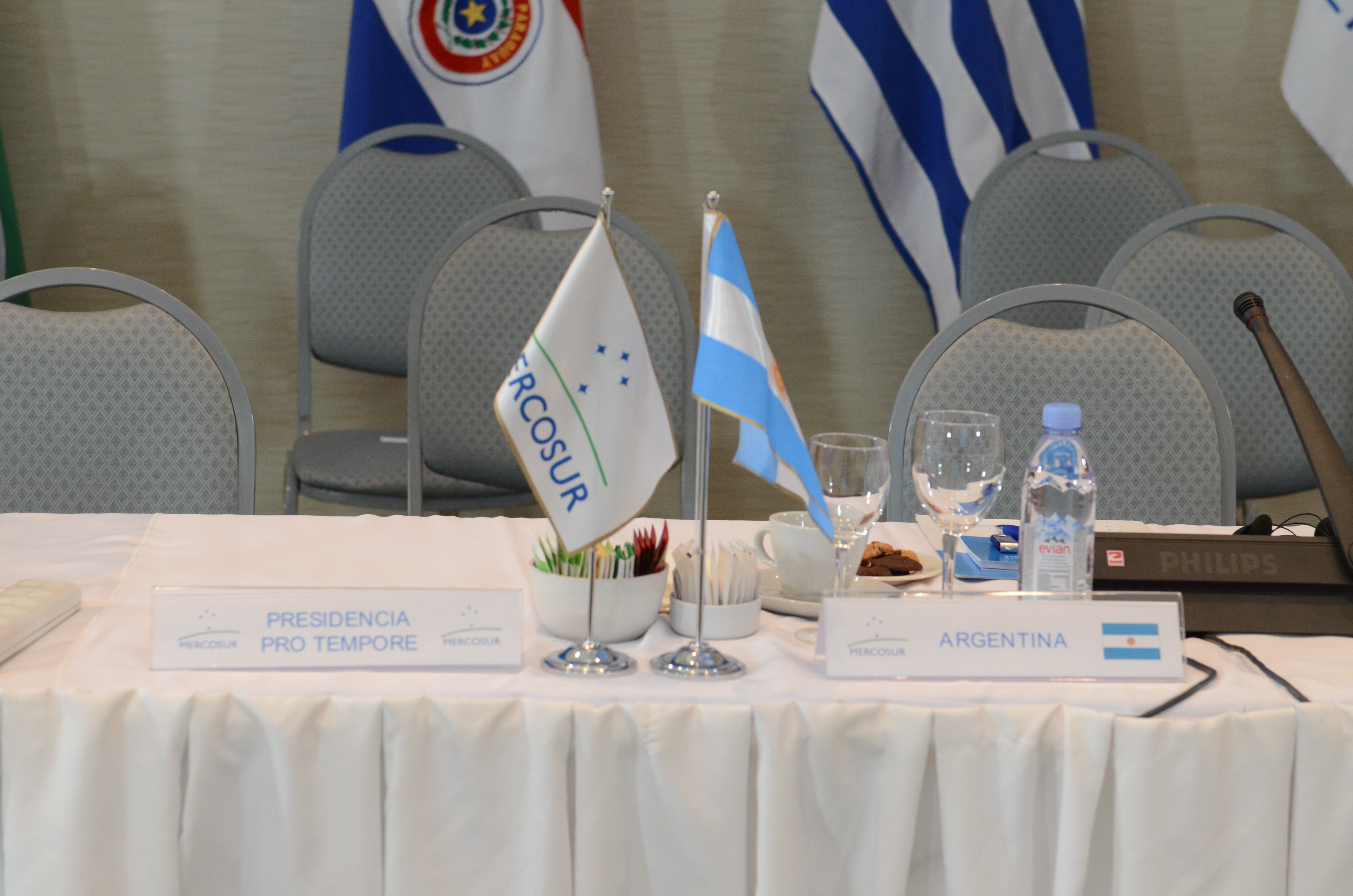 Se realizó en Mendoza la Cumbre de MERCOSUR el 20 de Julio de 2017 presidida por el presidente Mauricio Macri y con la presencia de los presidentes de los paises del bloque y asociados. fotos: Roberto Daniel Garagiola